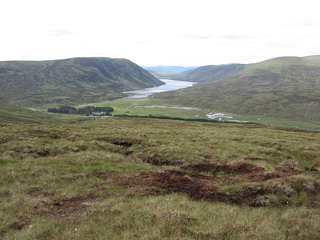 Moors above Dalnaspidal Peaty moorland with a view down to Dalnaspidal and Loch Garry.